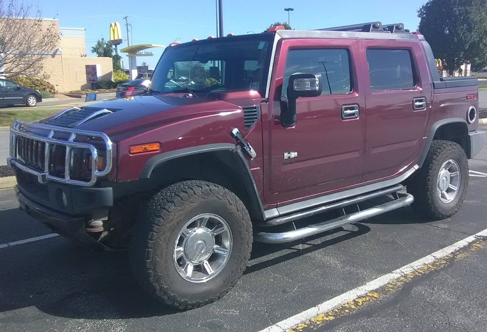 2003-2009 Hummer H2 SUT photographed in New Castle, Pennsylvania